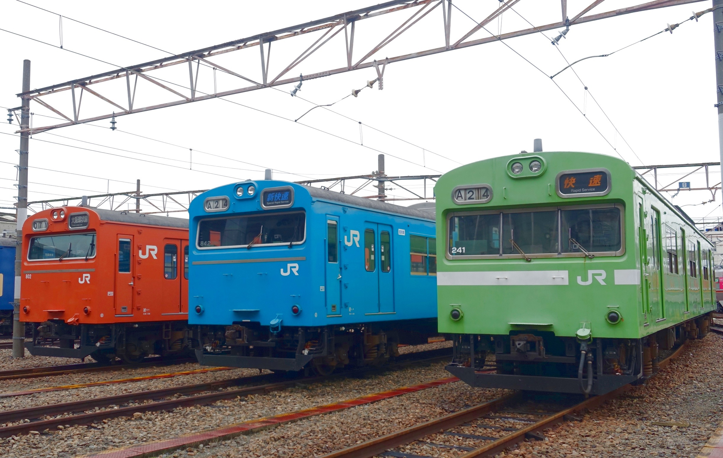 A line-up of different JR West 103 series EMU variants at Suita Car Maintenance Center open day (left to right: Orange Vermilion, Sky Blue, Uguisu Green)